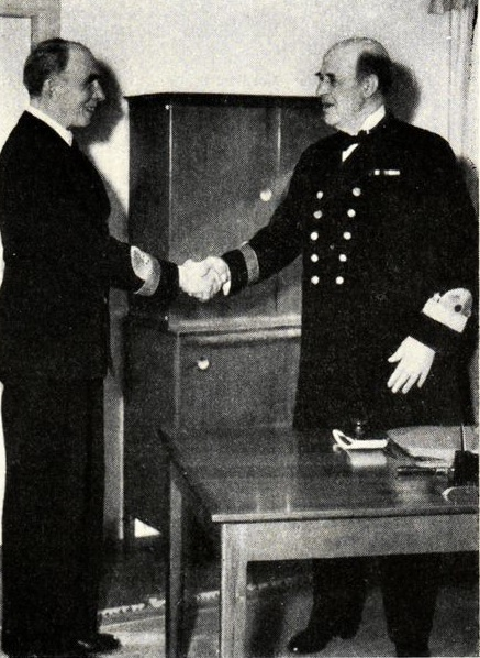 Easter Sunday, 1 April 1945, the Swedish Navy got a new chief (the appointment took place 31 December 1944). The newly-appointed chief, vice admiral Helge Strömbäck (left, still with rear admiral's insignia on the sleeves) shakes hand with the departing vice admiral Fabian Tamm.